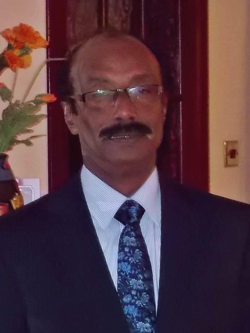 when Khan was in london